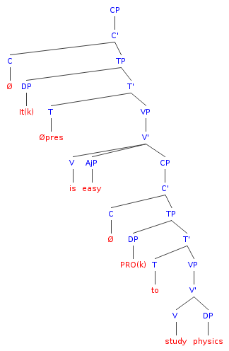 This is a syntactic tree diagram of the sentence "Kerry persuaded Sarah to study physics" in order to show the relation of PRO ('big pro') to the subject 'it'.